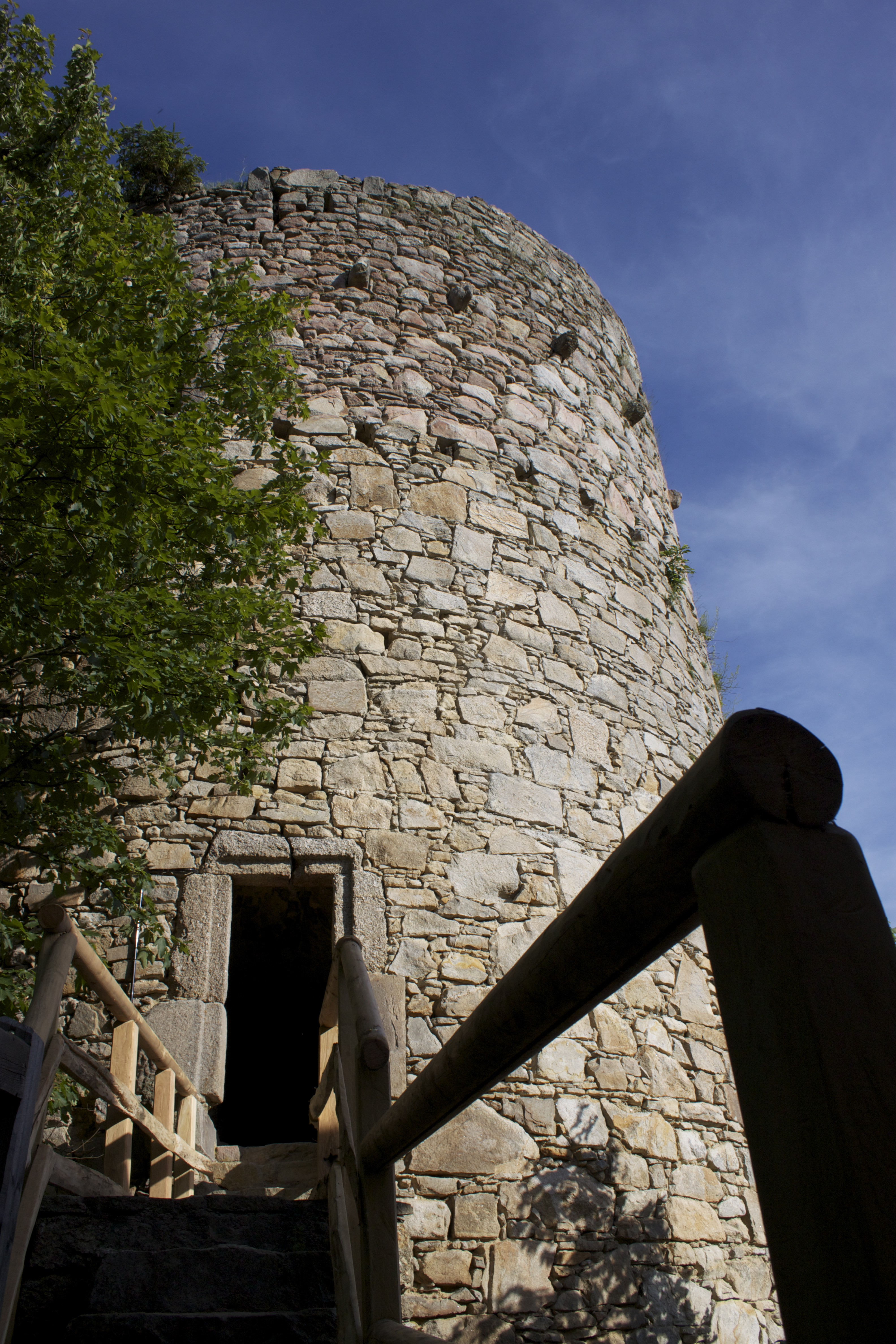 Burgruine Prandegg